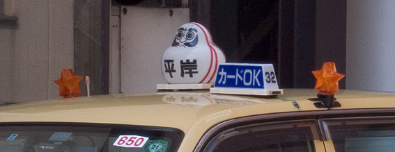 Turning lights on roof of taxi